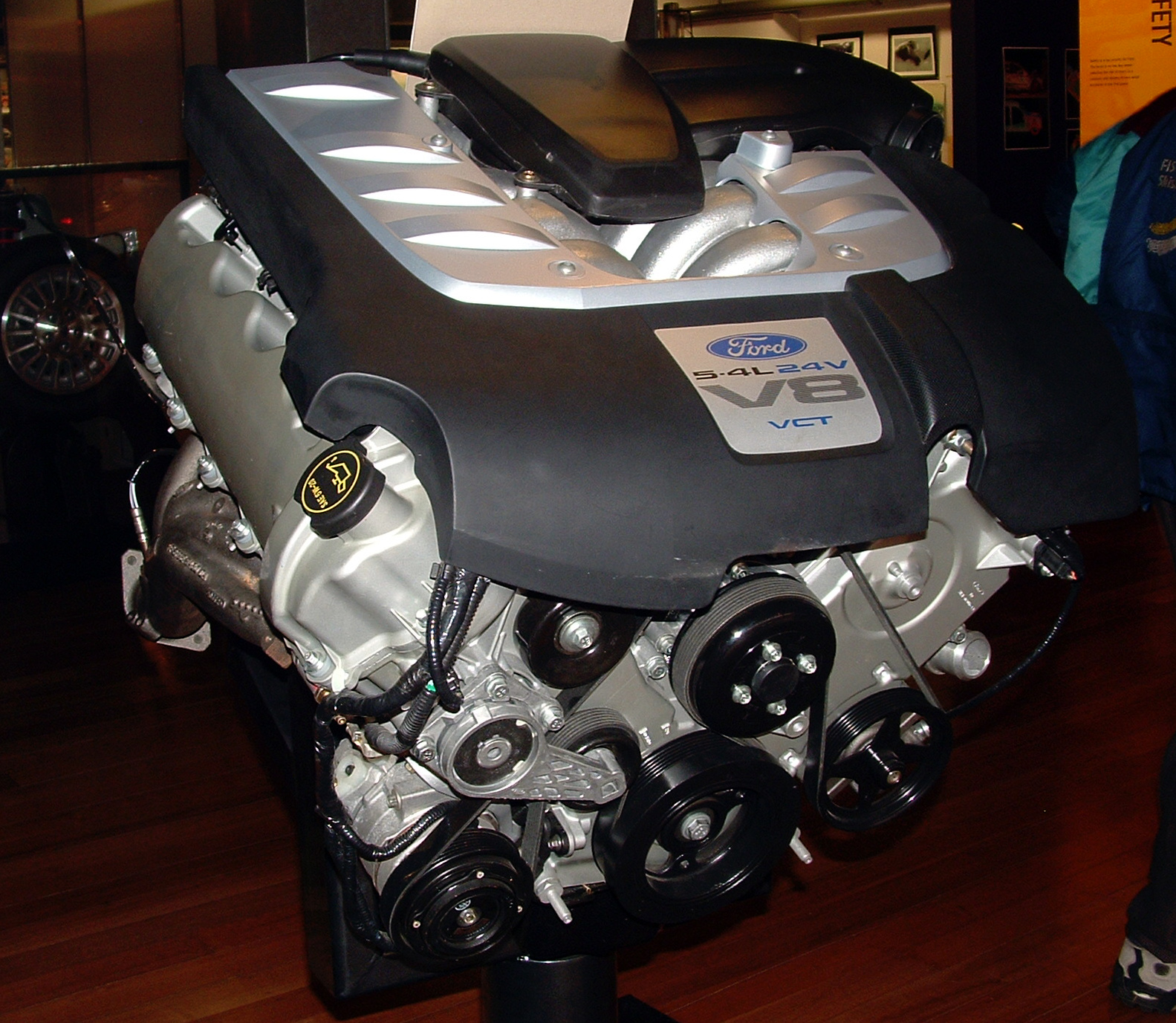 Ford Modular V8 Engine, Barra 220 5.4L 24 Valve VCT